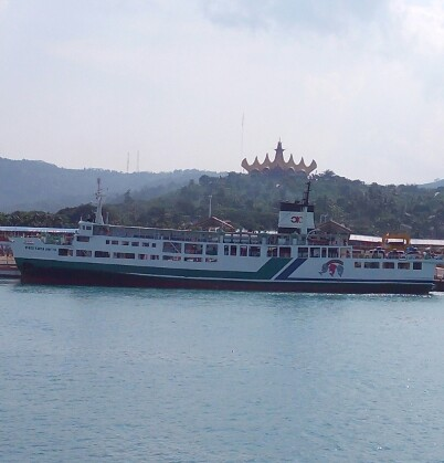 Bakaheuni Port